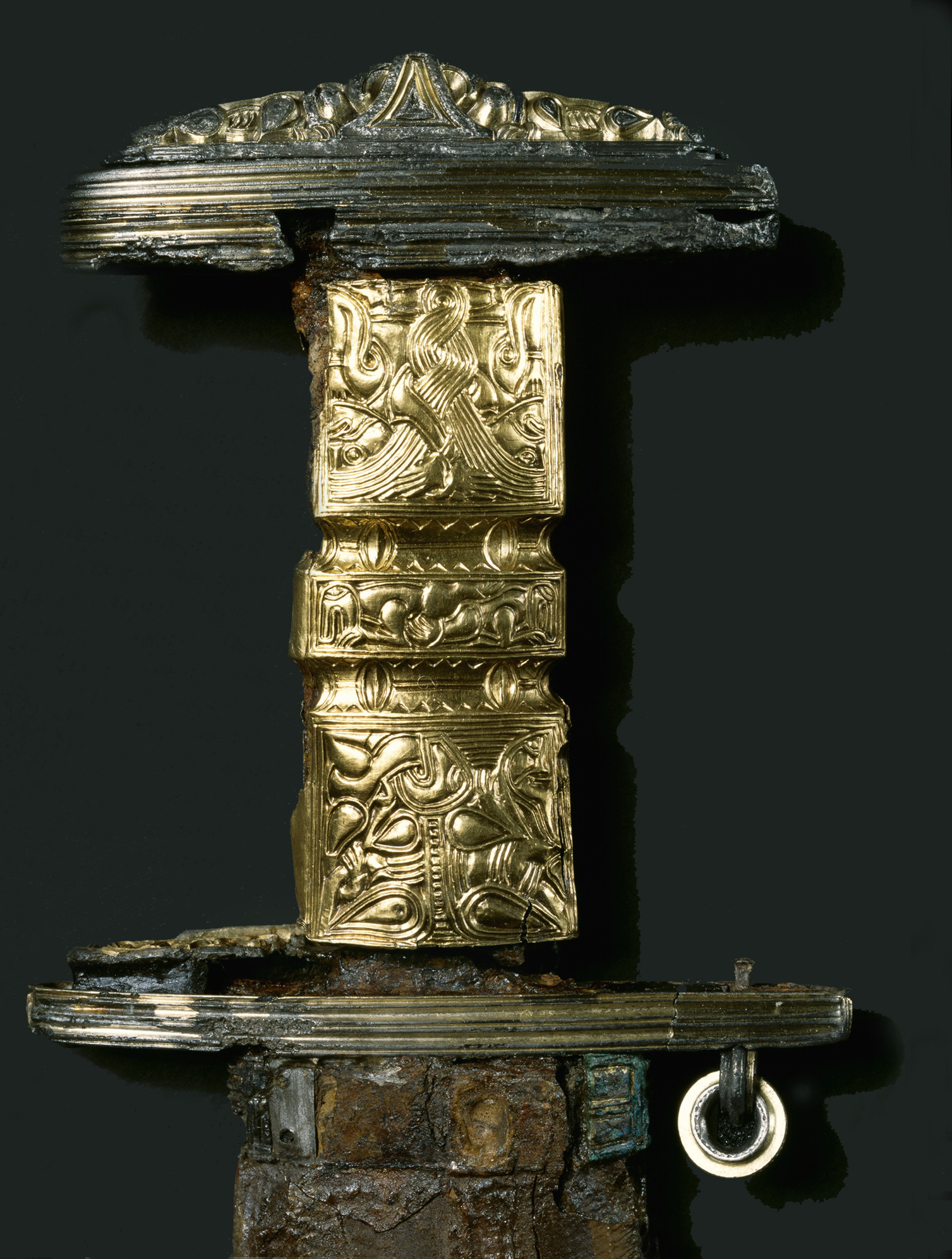 Hilt of the Snartemo-sword